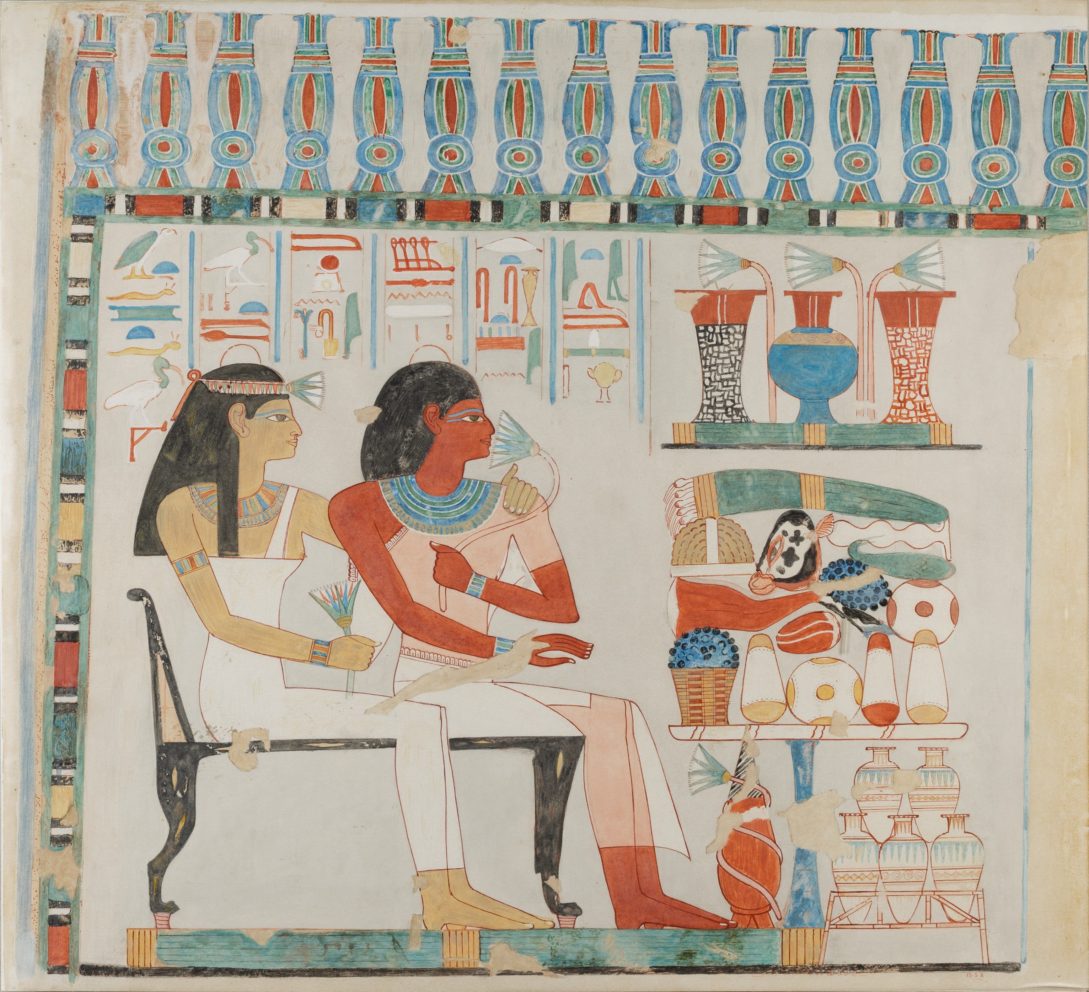 Facsimile, Djehuty (TT 45), offering scene